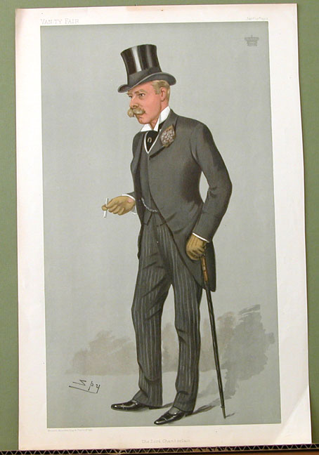 Statesmen No.730: Caricature of The Earl of Clarendon MP JP. Caption reads: "The Lord Chamberlain"